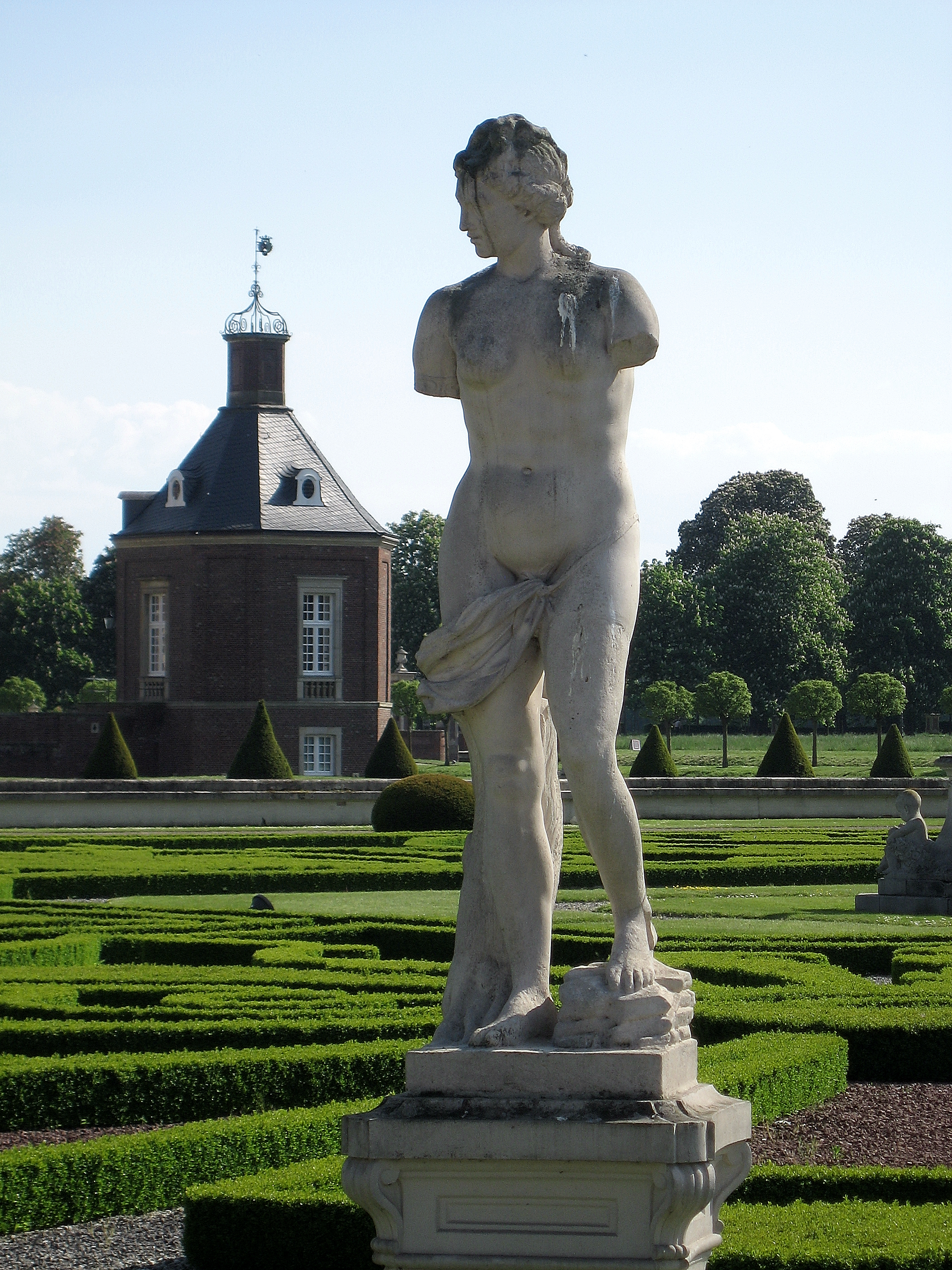 The Baroque parterre garden and sculpture of Venus in Schlosspark Nordkirchen. Schloss Nordkirchen is situated in Nordkirchen, Kreis Coesfeld, near Münster, Germany, and is the biggest castle in this part of Germany.